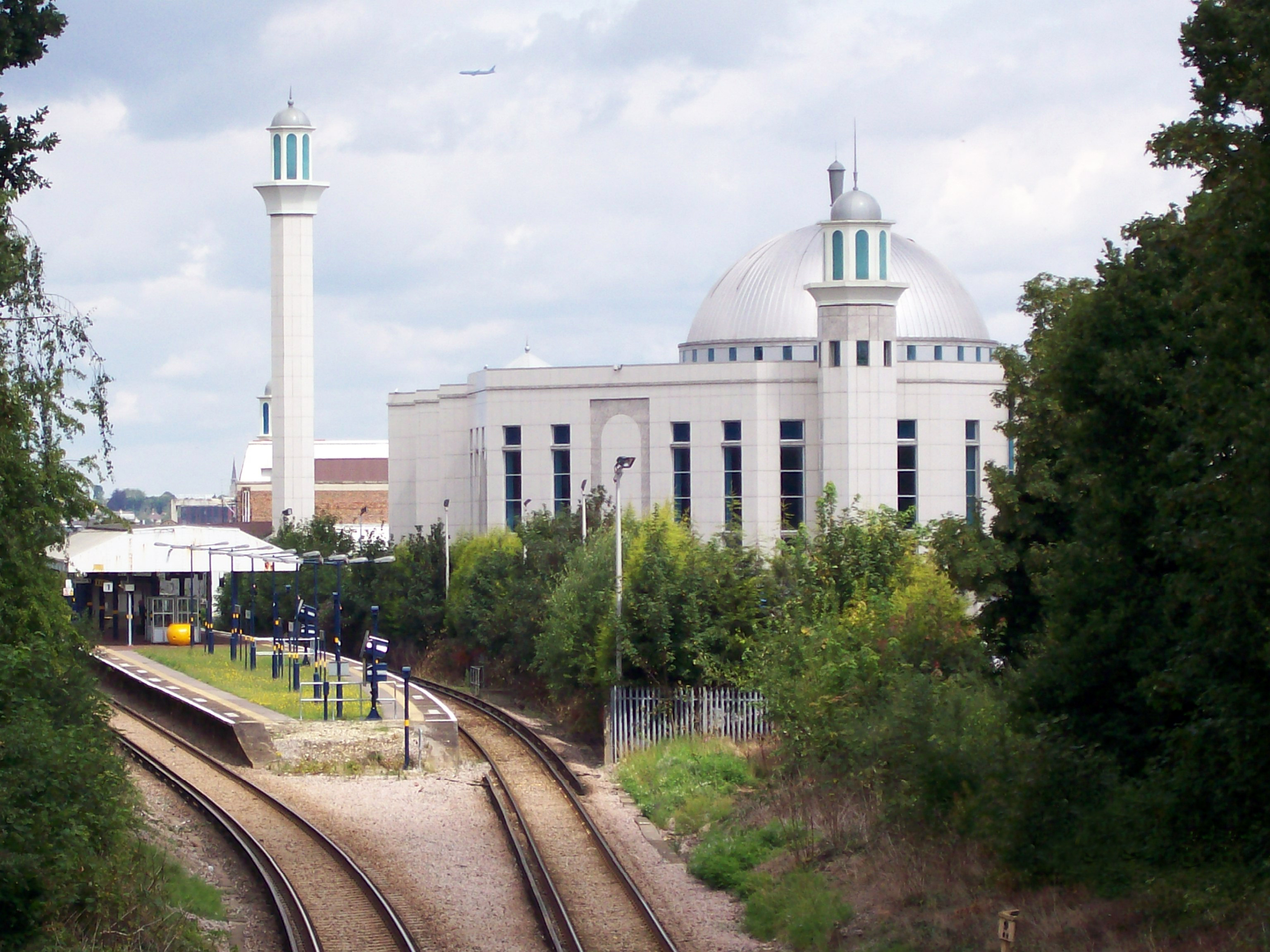 Picture of the Bait-ul-Futuh Mosque in London. The Bait-ul-Futuh Mosque in London is the biggest Mosque of West Europe.